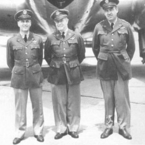 From the book Aviation in the U.S. Army, 1919-1939, published in 1987 by the U.S. Air Force, written by Dr. Maurer Maurer for the United States Air Force Historical Research Center.